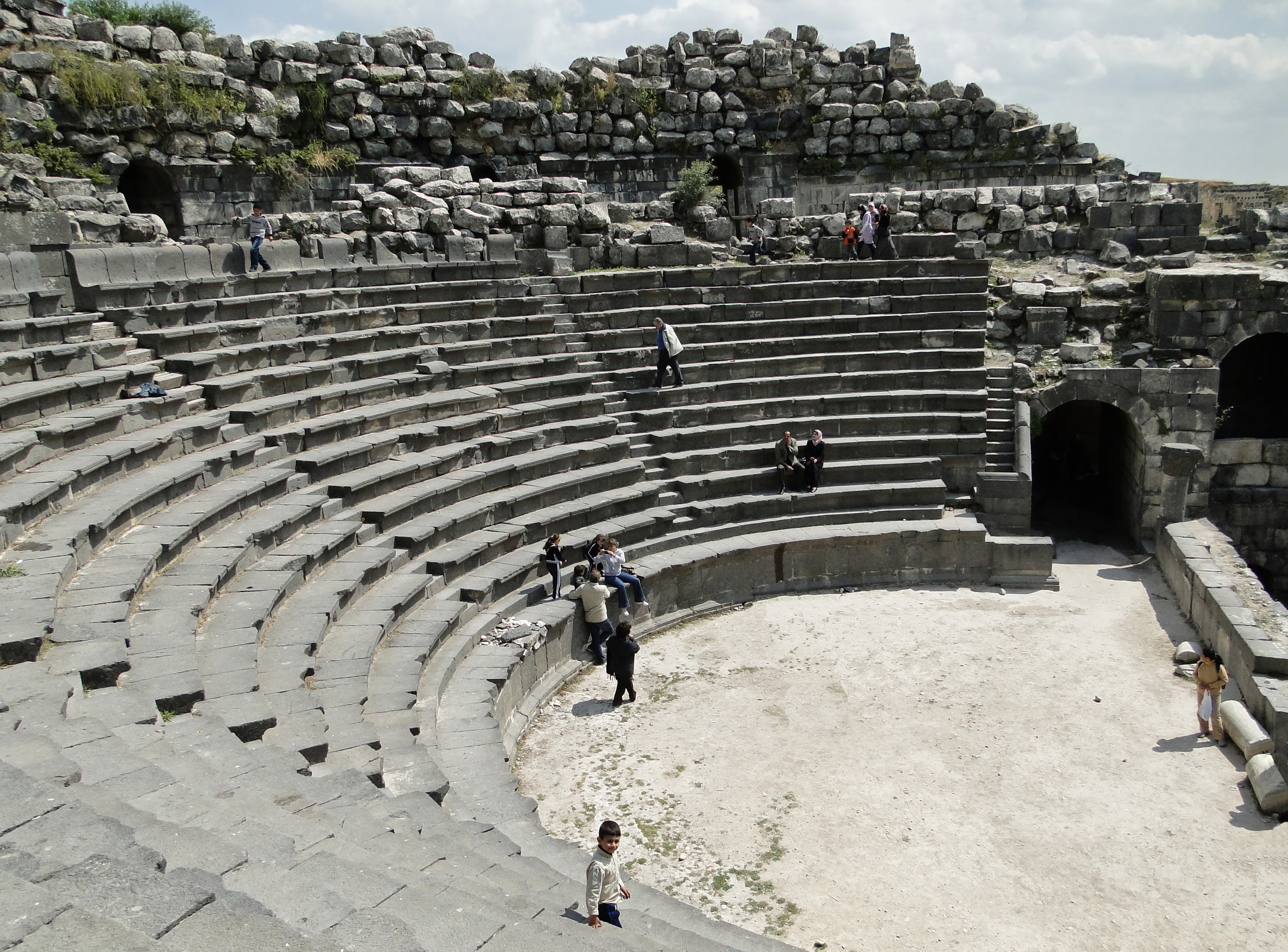 West Theatre of Gadara (Umm Qais), Jordan